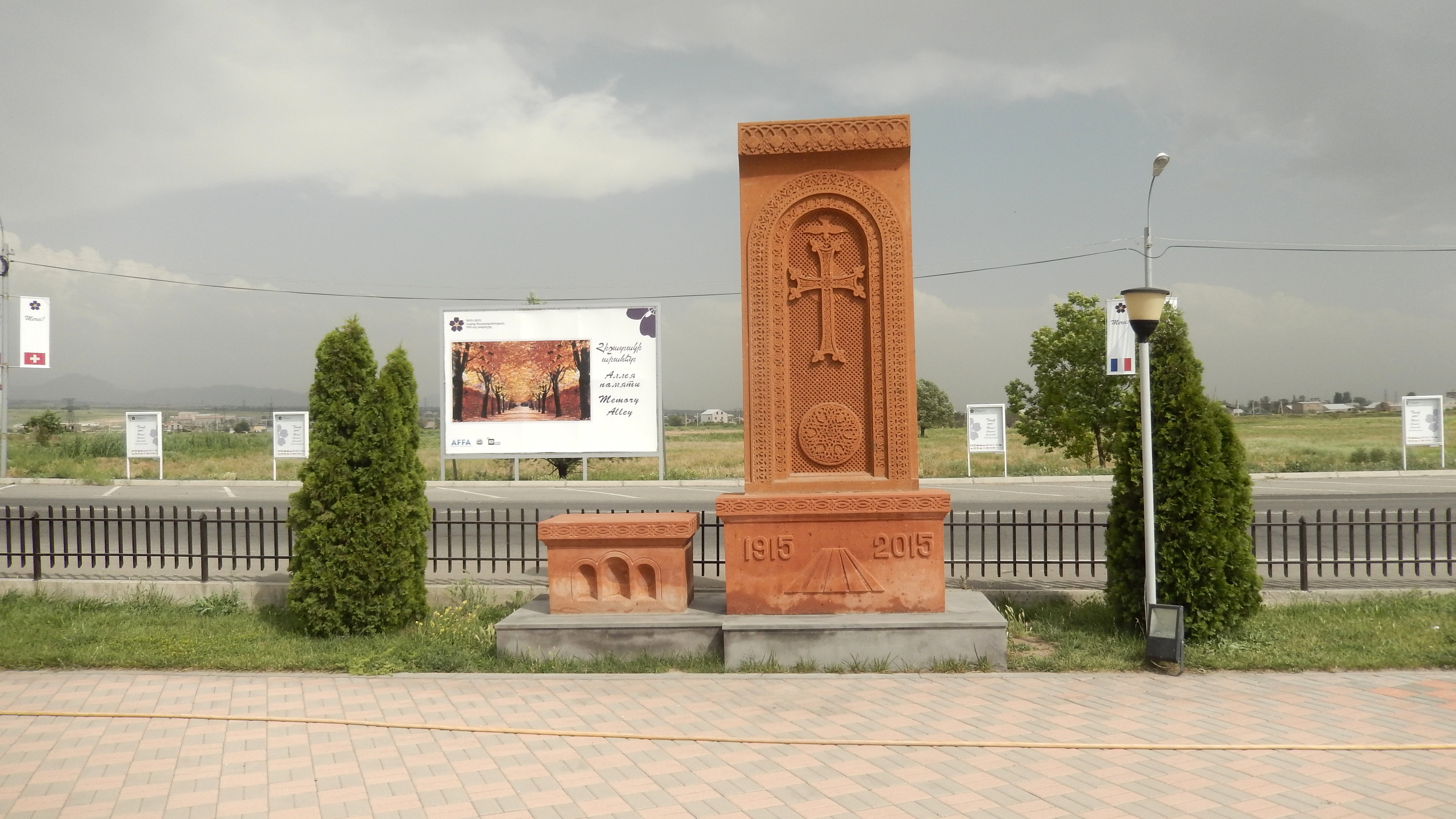 St Gevorg Church, Masis